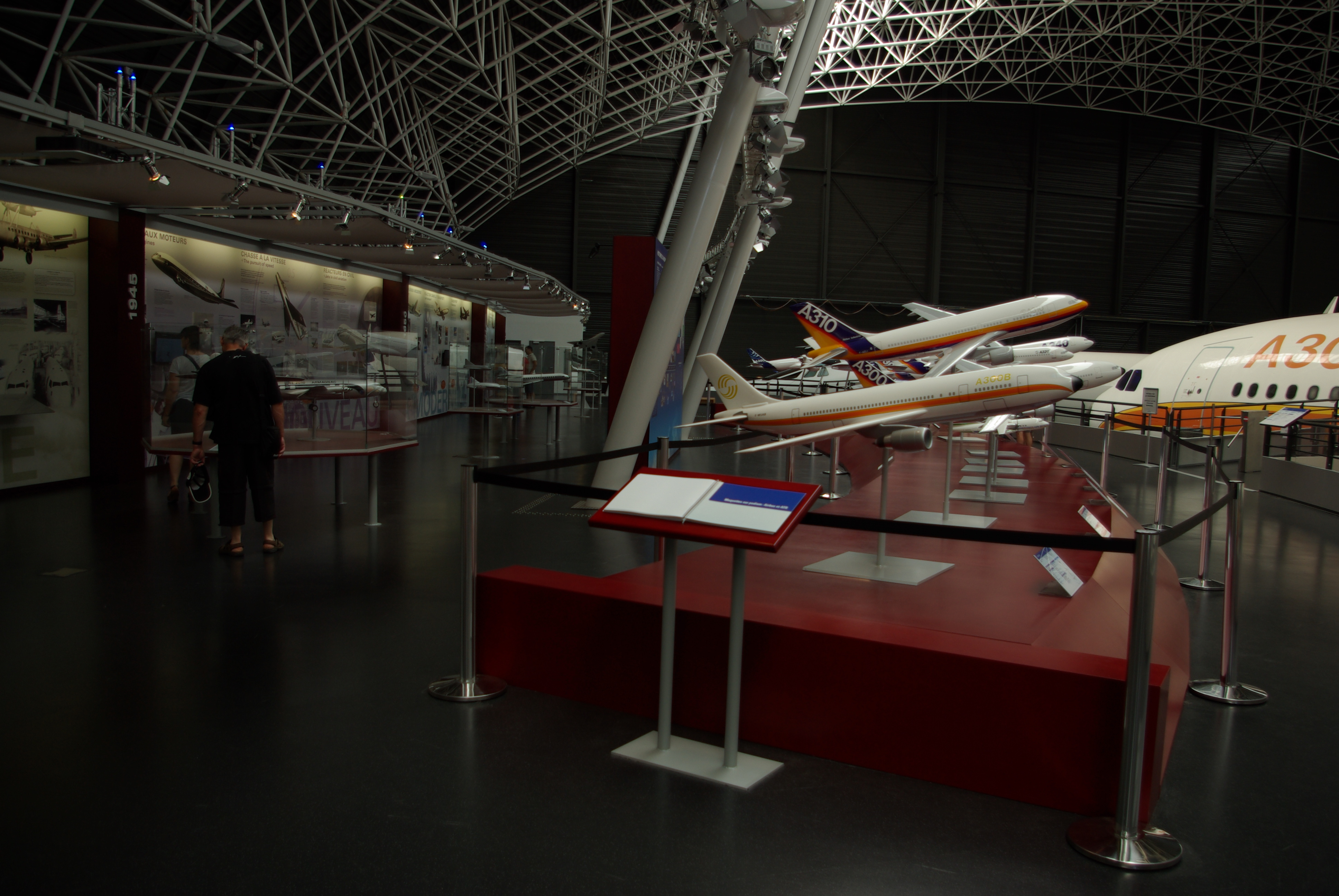 View of the balcony of Aeroscopia, models of Airbus family aircraft and of other aircraft produced in Toulouse are displayed in front of the fresco of aviation's history. On the right hand side the footbridge to the Airbus A300 is visible.